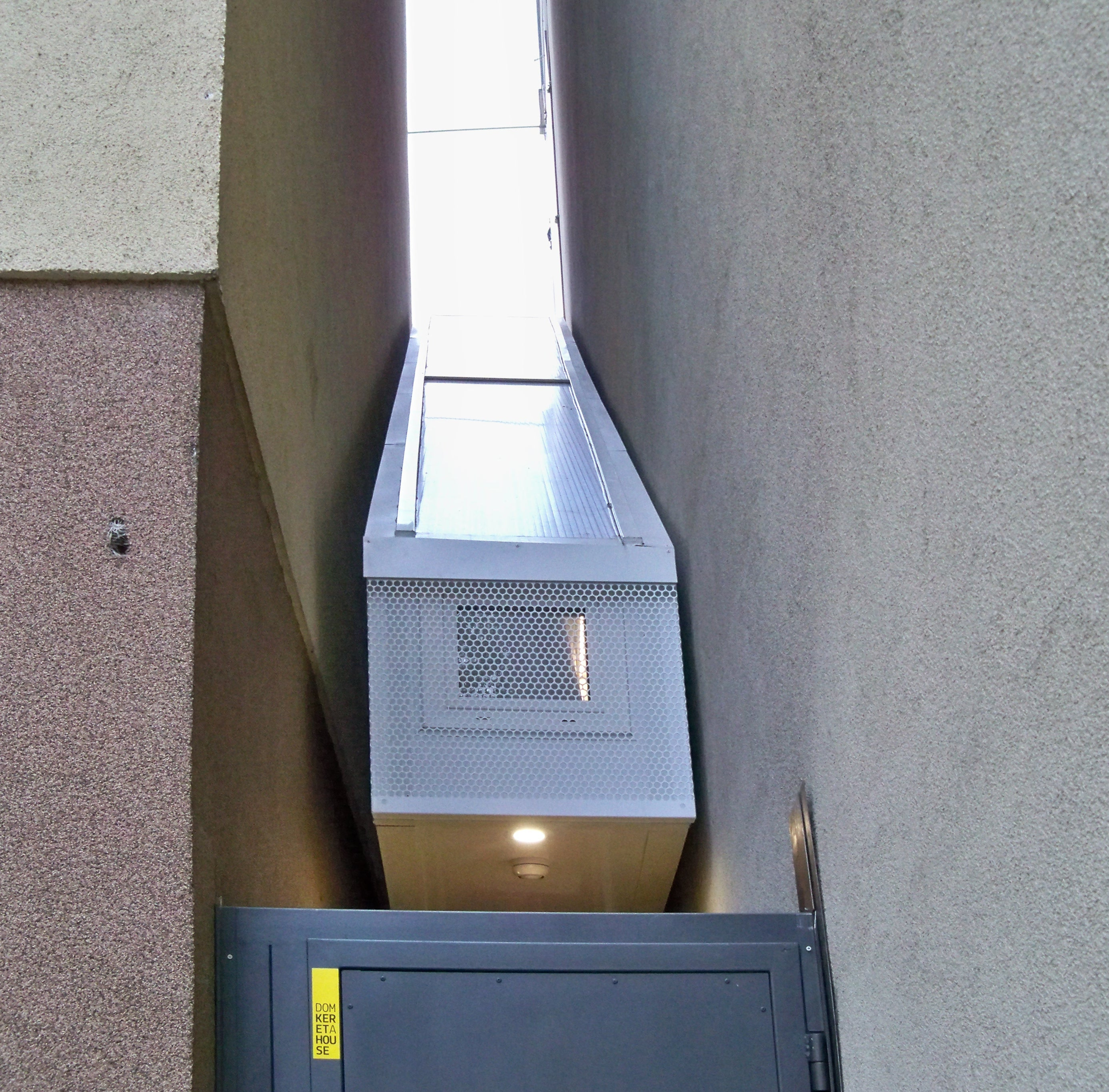 Keret House in Warsaw.